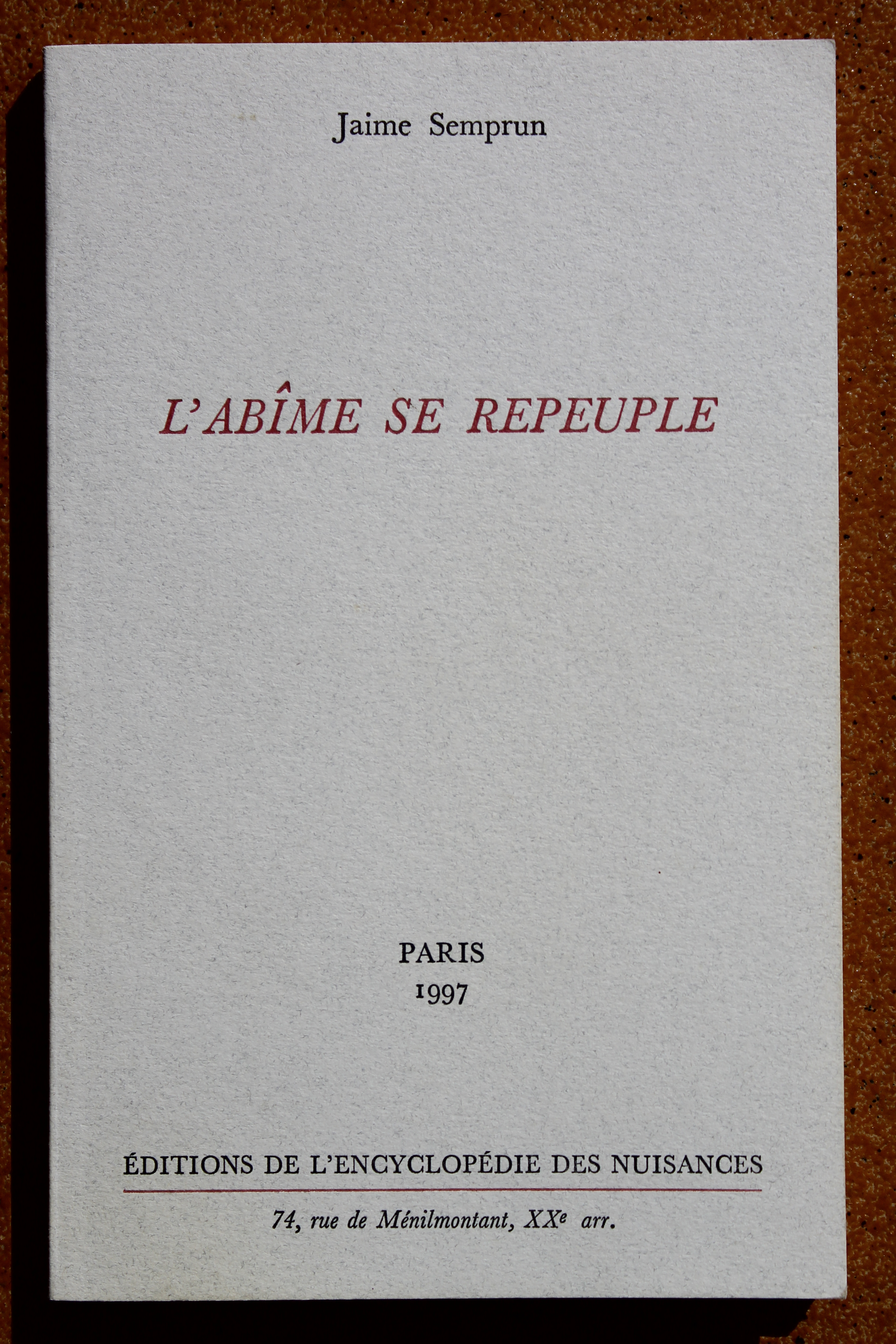 Jaime Semprun book